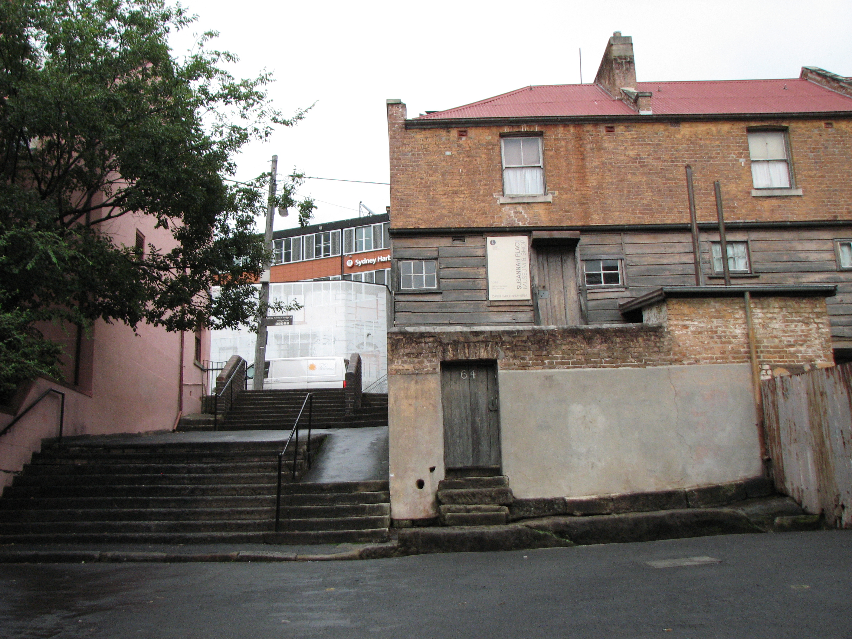 Cumberland Place and Steps are listed on the New South Wales State Heritage Register. The photo was taken from the steps leading to Harrington Street. The steps at top lead to Cumberland Street.